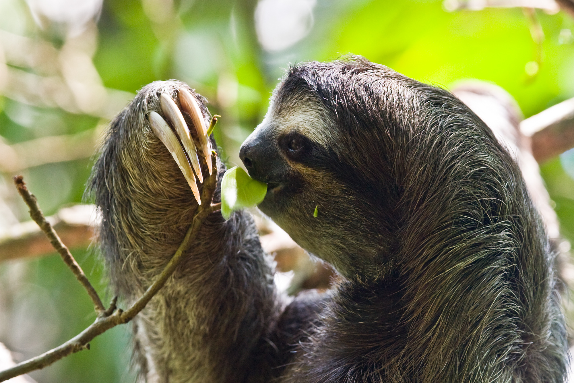 Three-toed-sloth, picture taken in the Cahuita National Park in the southeast of Costa Rica